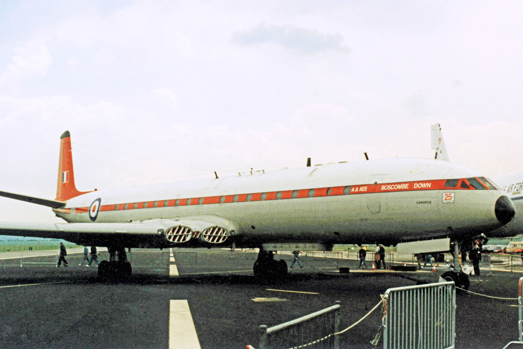 De Havilland DH.106 Comet 4C XS235 "Canopus" of the A&AEE at Boscombe Down in 1990